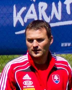 A training of the slovak football squad for the World Cup 2010 in Austria.